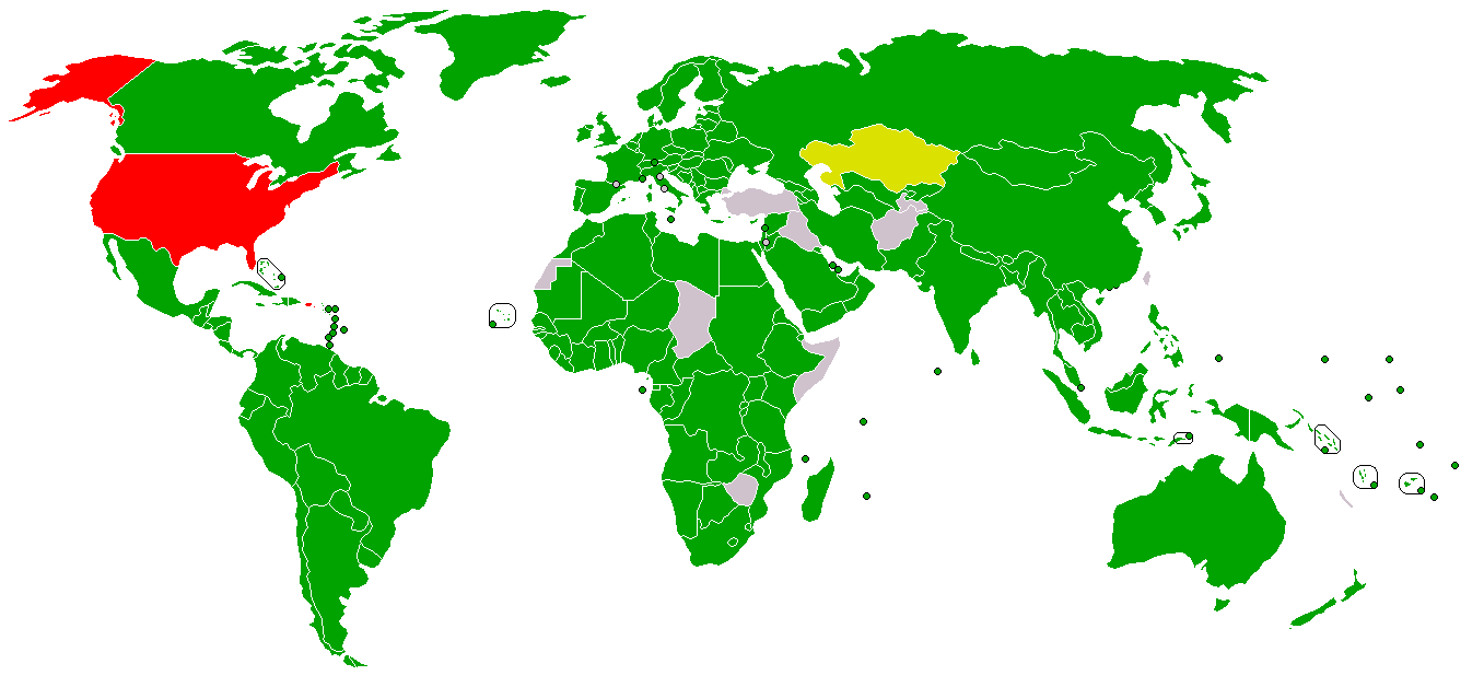 See below.